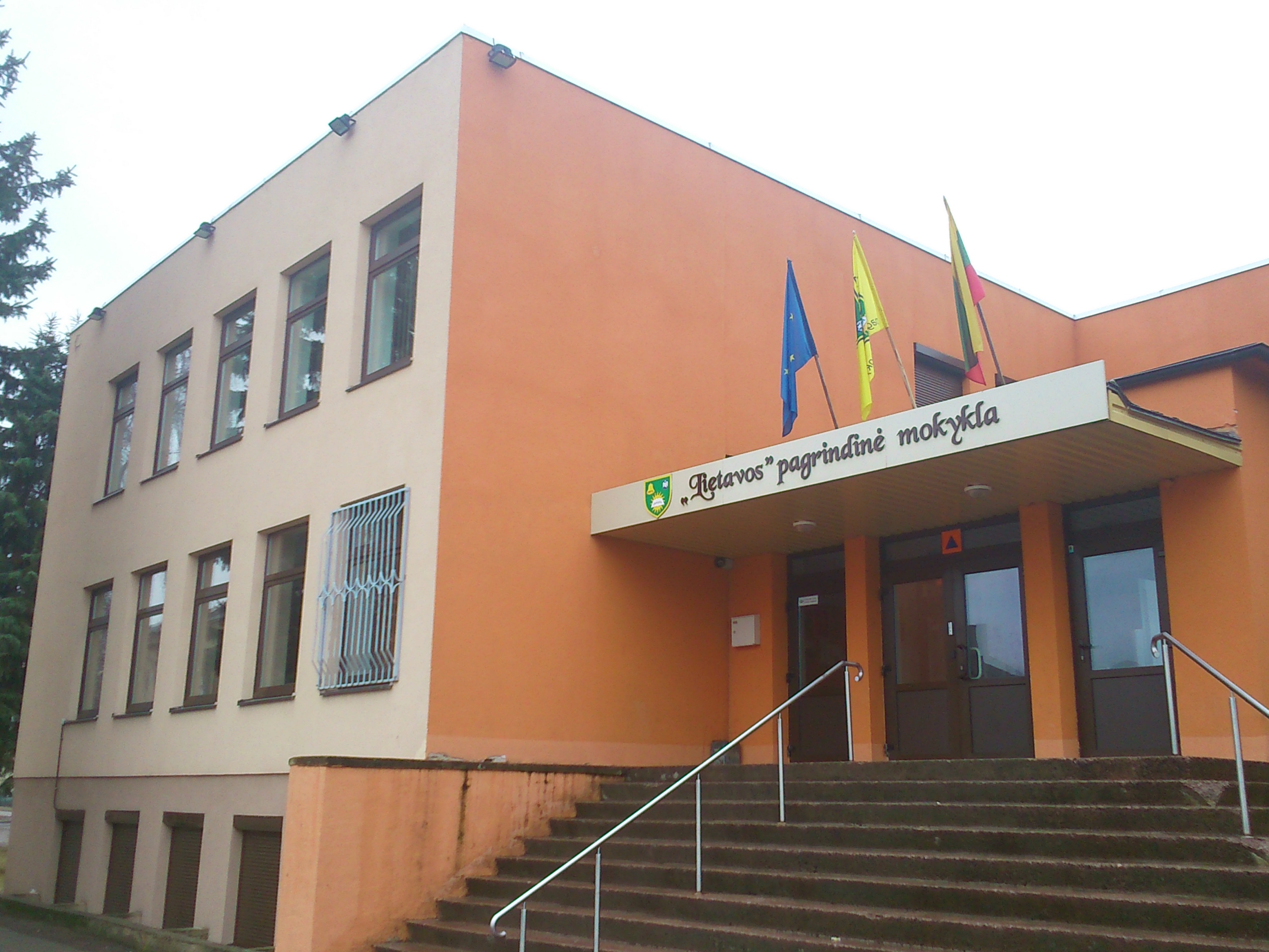 Lietavos pagrindinė mokykla